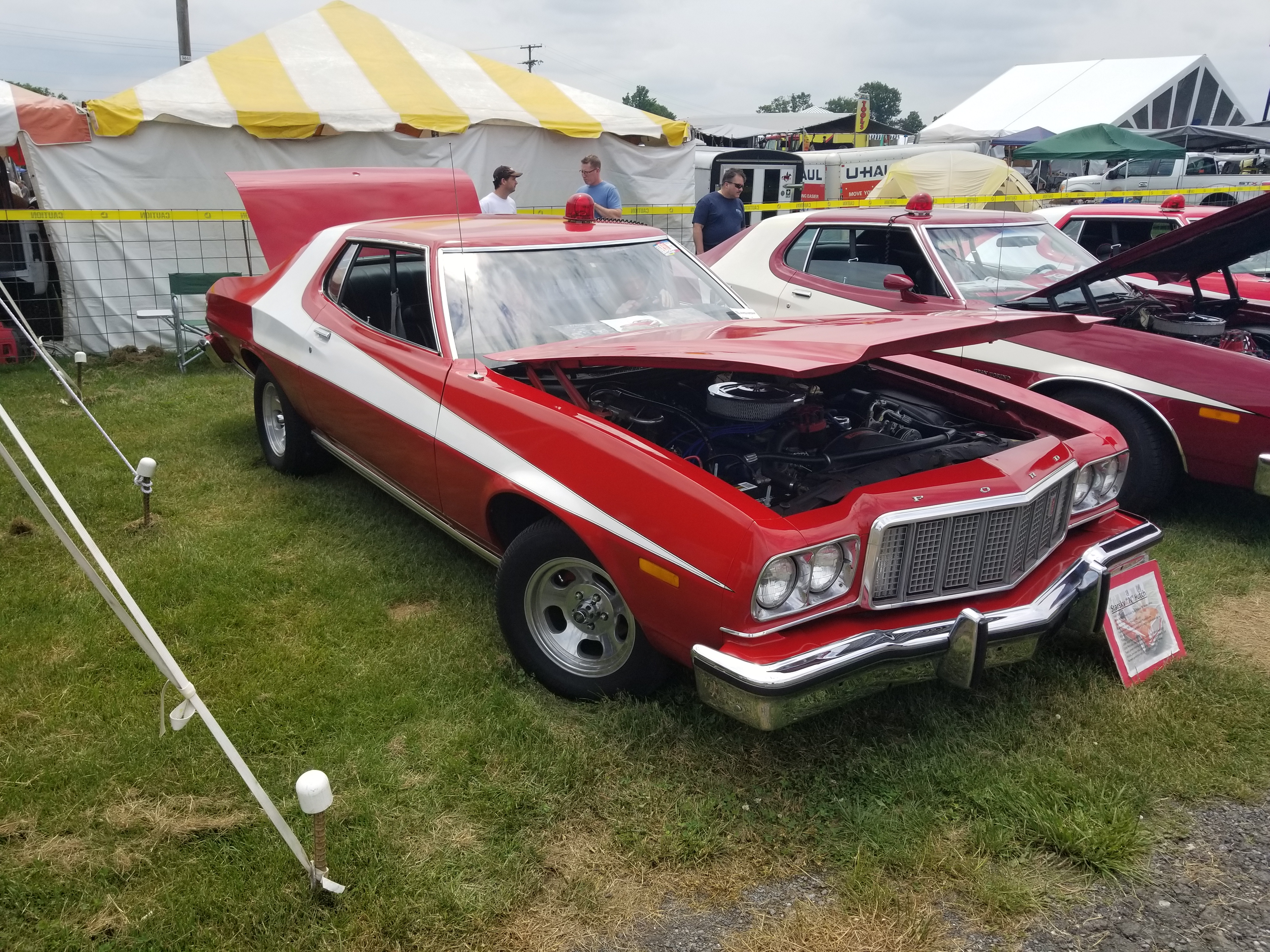 Starksy and Hutch Ford Gran Torino (replica)